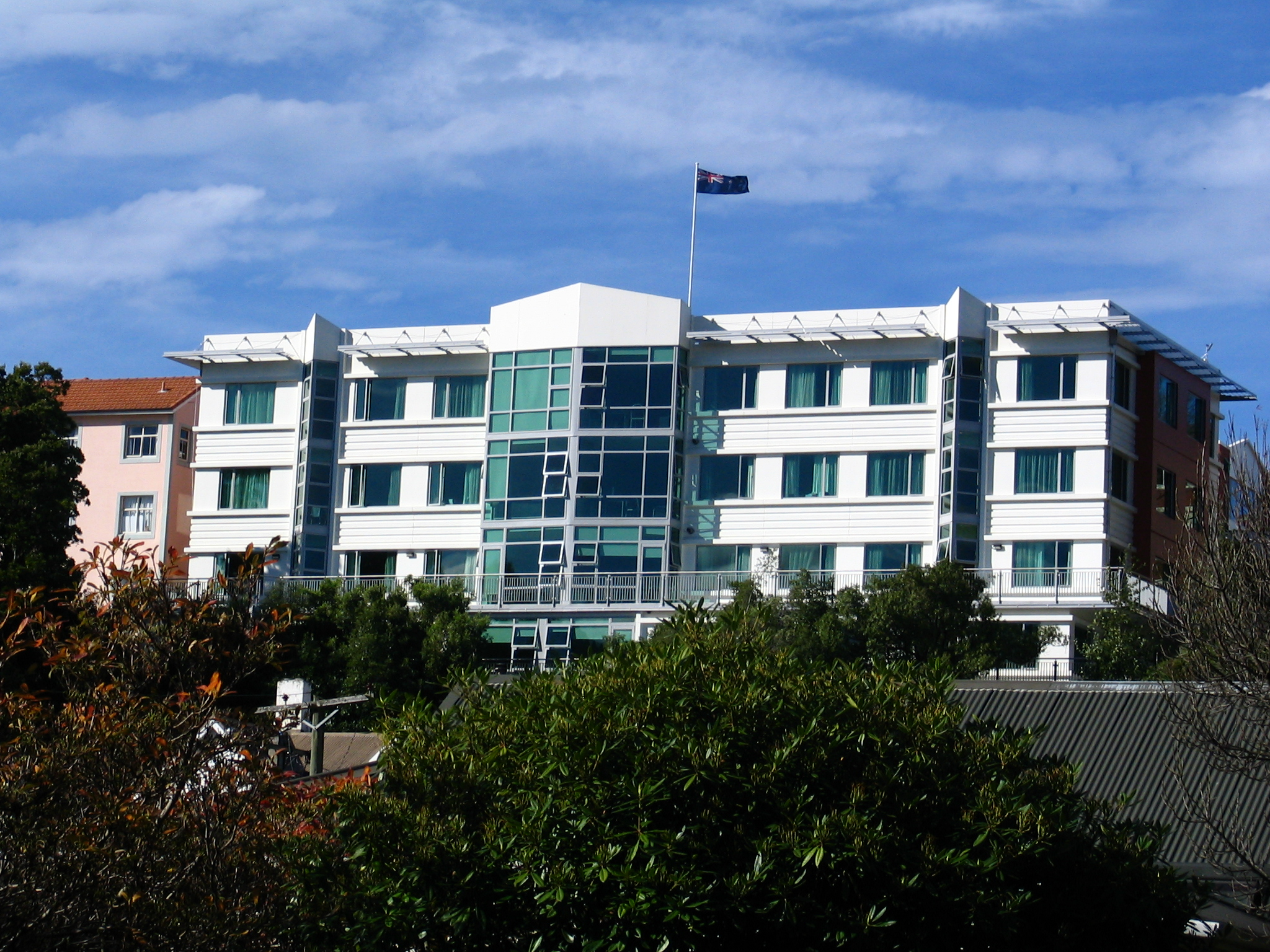 Arana College building in Dunedin, New Zealand, from St David St footbridge